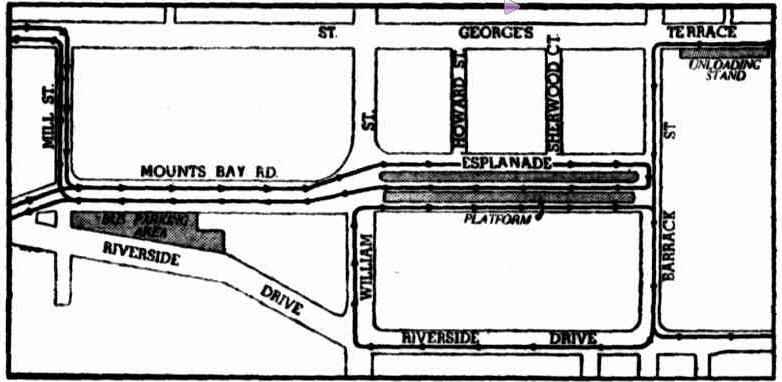 1950 plan for construction of a bus station on The Esplanade, Perth